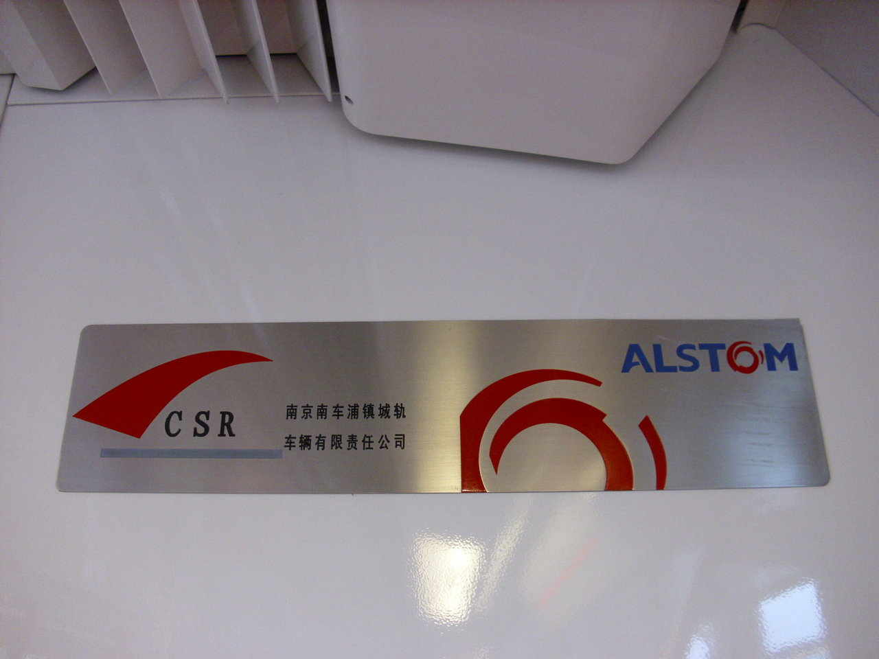 own work 南京地铁2号线 列车铭牌